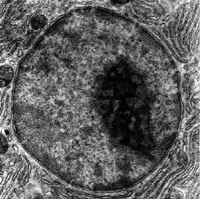 Cell nucleus & nucleolus microphotography